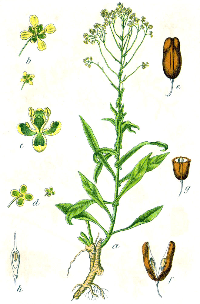 Isatis tinctoria subsp. tinctoria, syn. Crucifera isatis E.H.L.Krause Original Caption Waid, Crucifera isatis